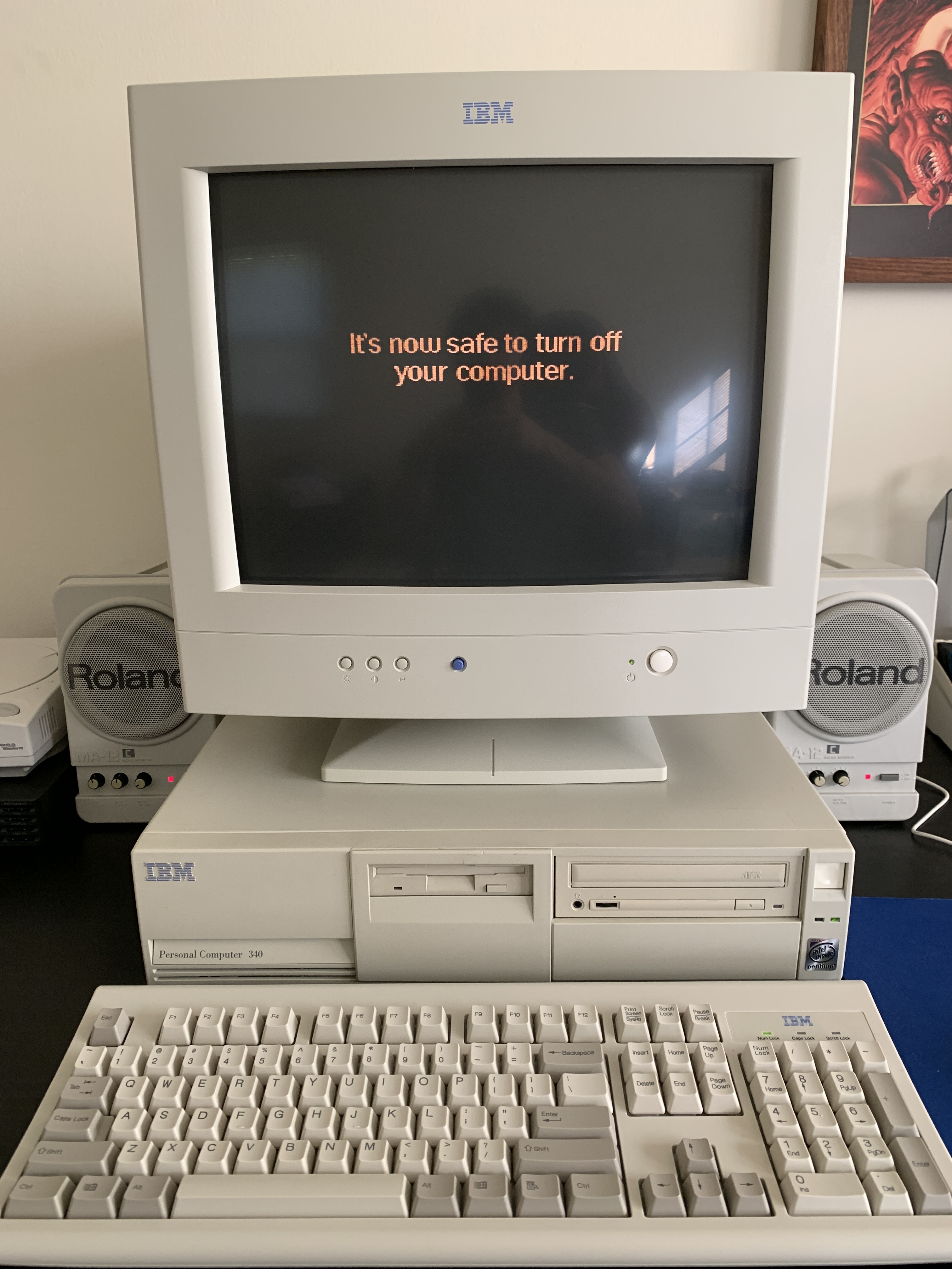 An IBM Personal Computer 340 displaying a "It's now safe to turn off your computer" notification.